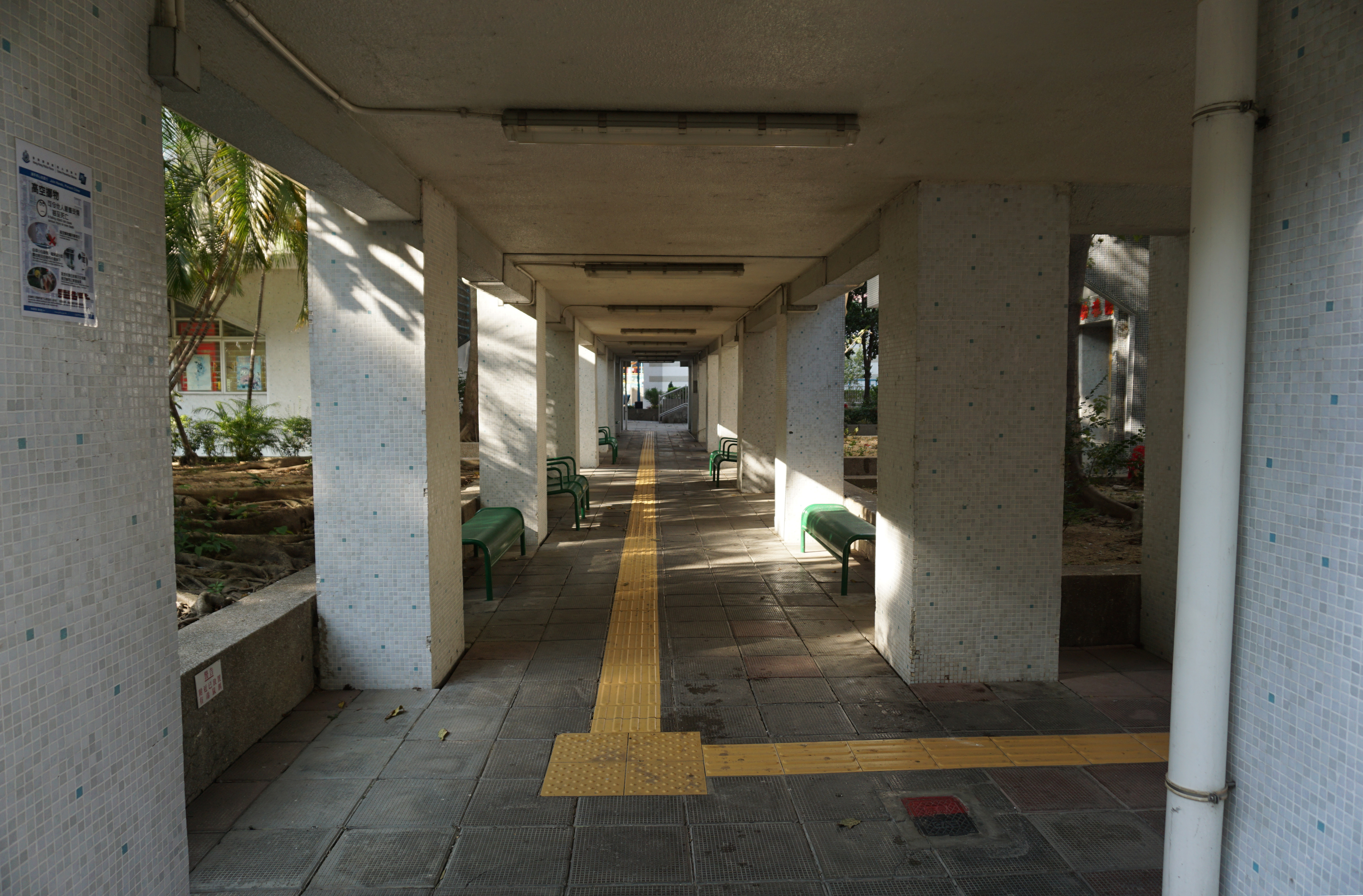 Kin Sang Estate in Tuen Mun, Hong Kong.